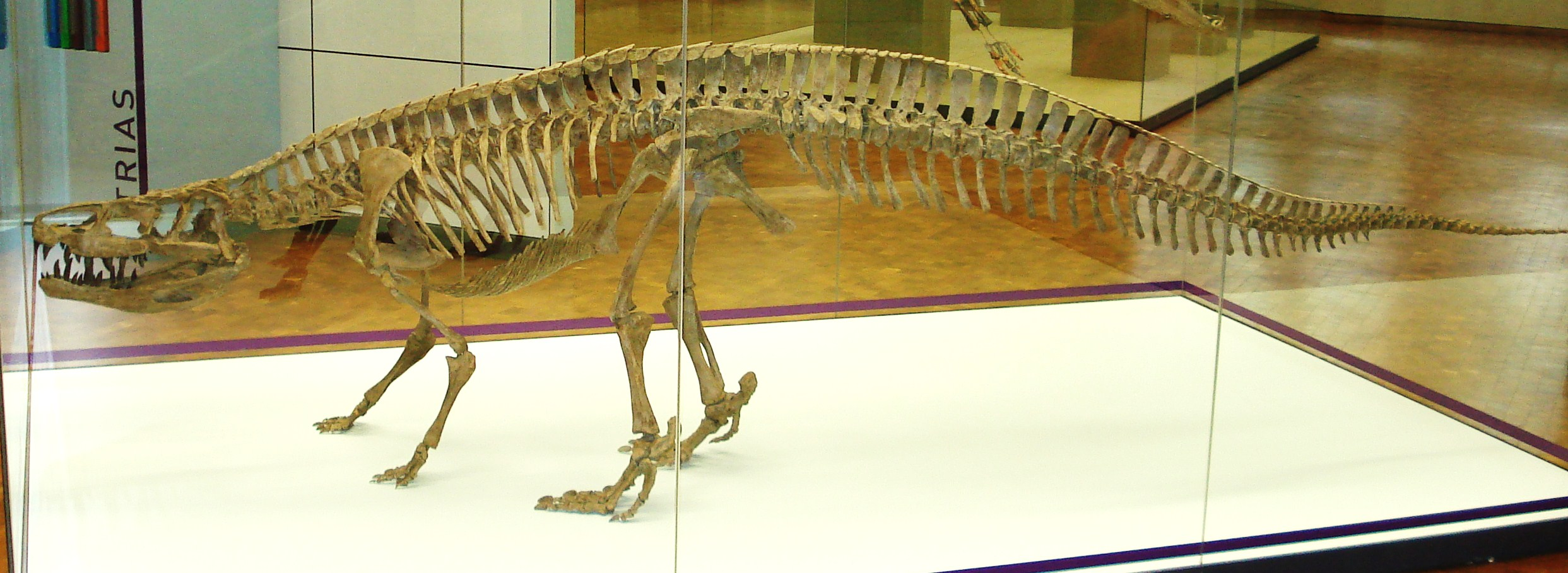 Skeletal restoration of Batrachotomus kupferzellensis GOWER 1999, an early representative of the crocodile lineage of the archosaurs, from the upper Ladinian (upper Middle Triassic) Erfurt Formation of Kupferzell, northern Baden-Wurttemberg, SW Germany.